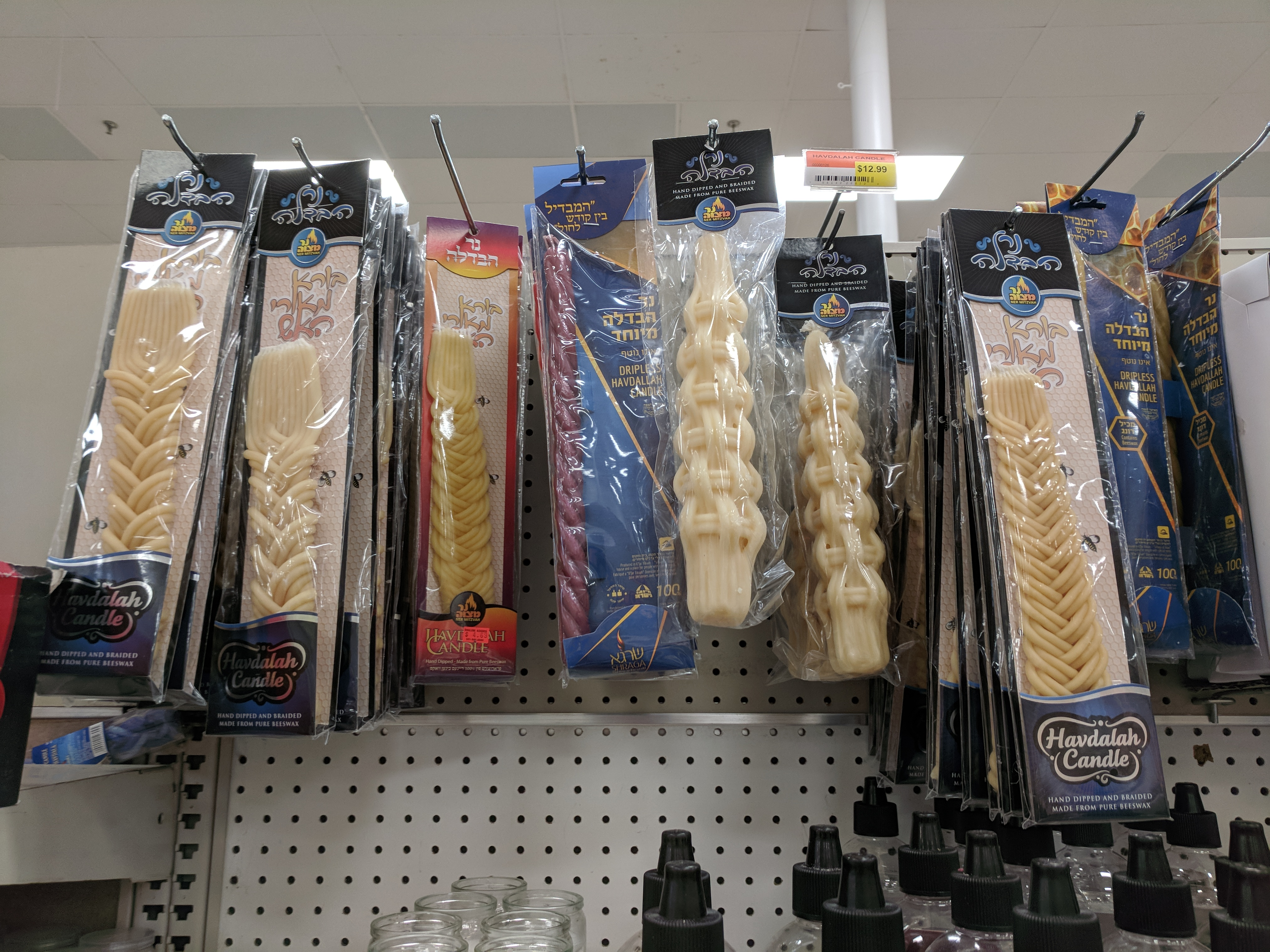 Shalom Kosher, a kosher Jewish grocery store in Kemp Mill, Montgomery County, Maryland.